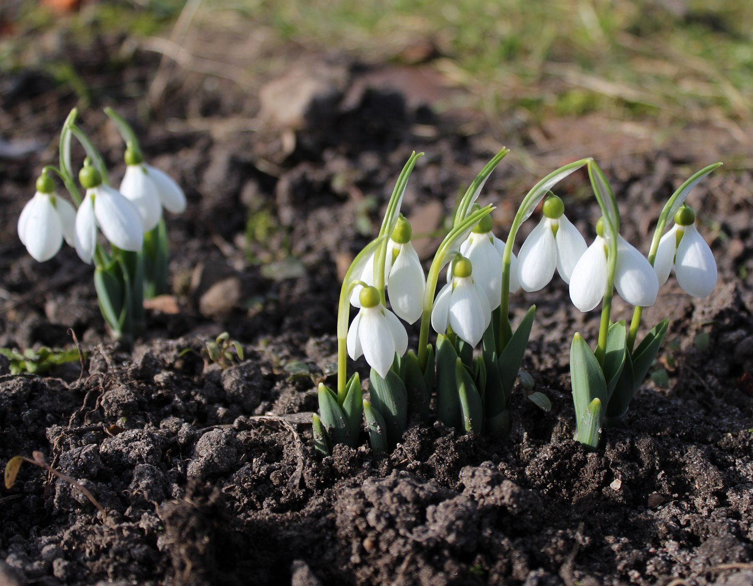 Galanthus elwesii